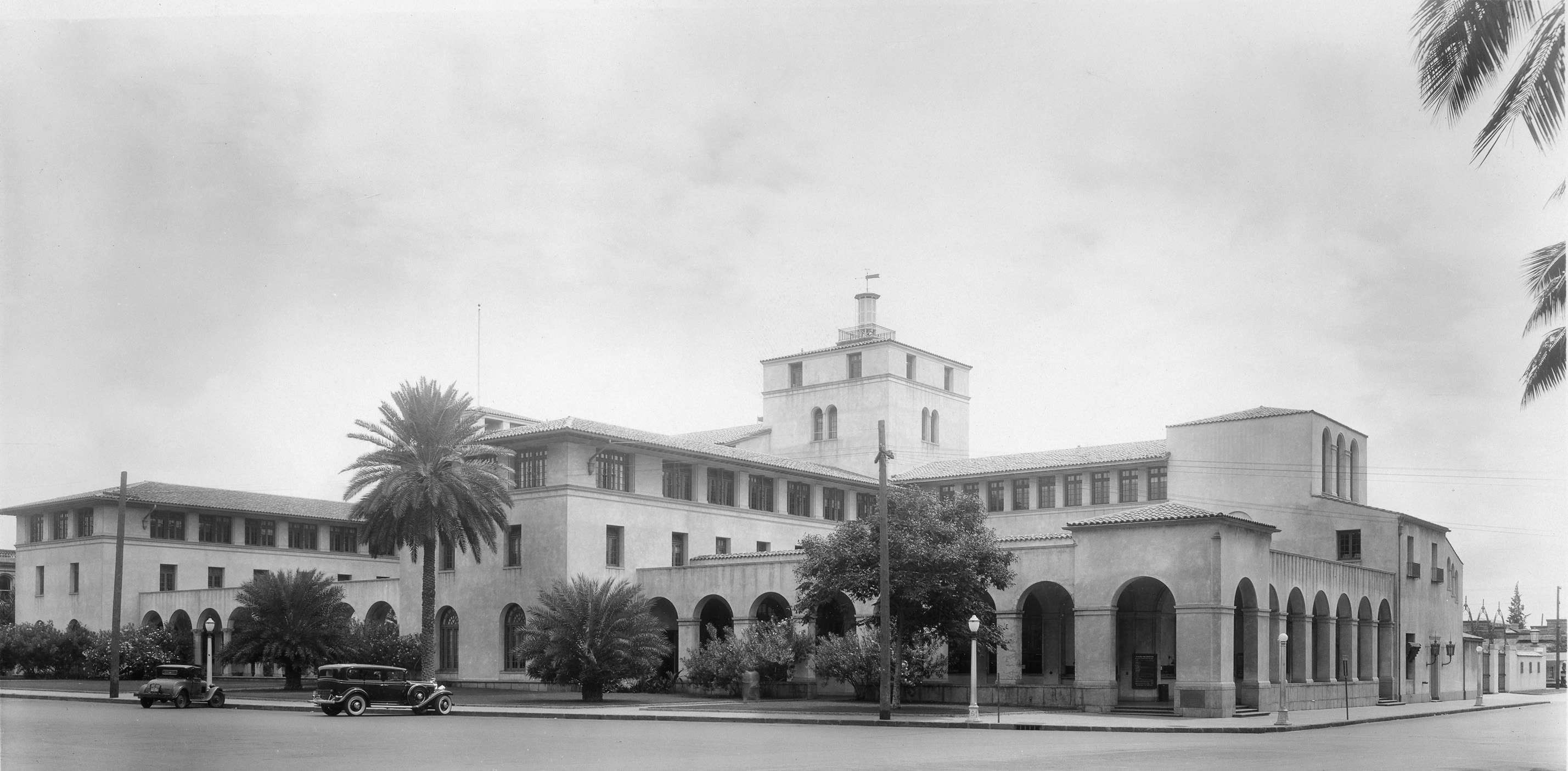 U.S. Post Office, Court House, and Custom House (1931 photo) — in Honolulu, Hawaii. Architect: York & Sawyer, completed in 1922. The U.S. District Court for the District of Hawaii met here from 1959 until 1978. Now occupied by state government offices and renamed the King Kalakaua Building in 2003. Contributing property in the Hawaii Capital Historic District.